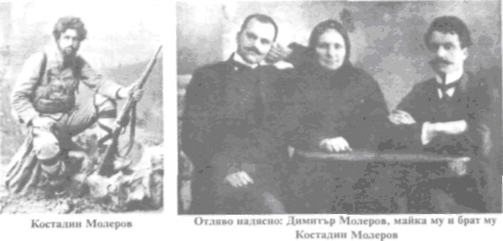 IMARO revolutionary/ies